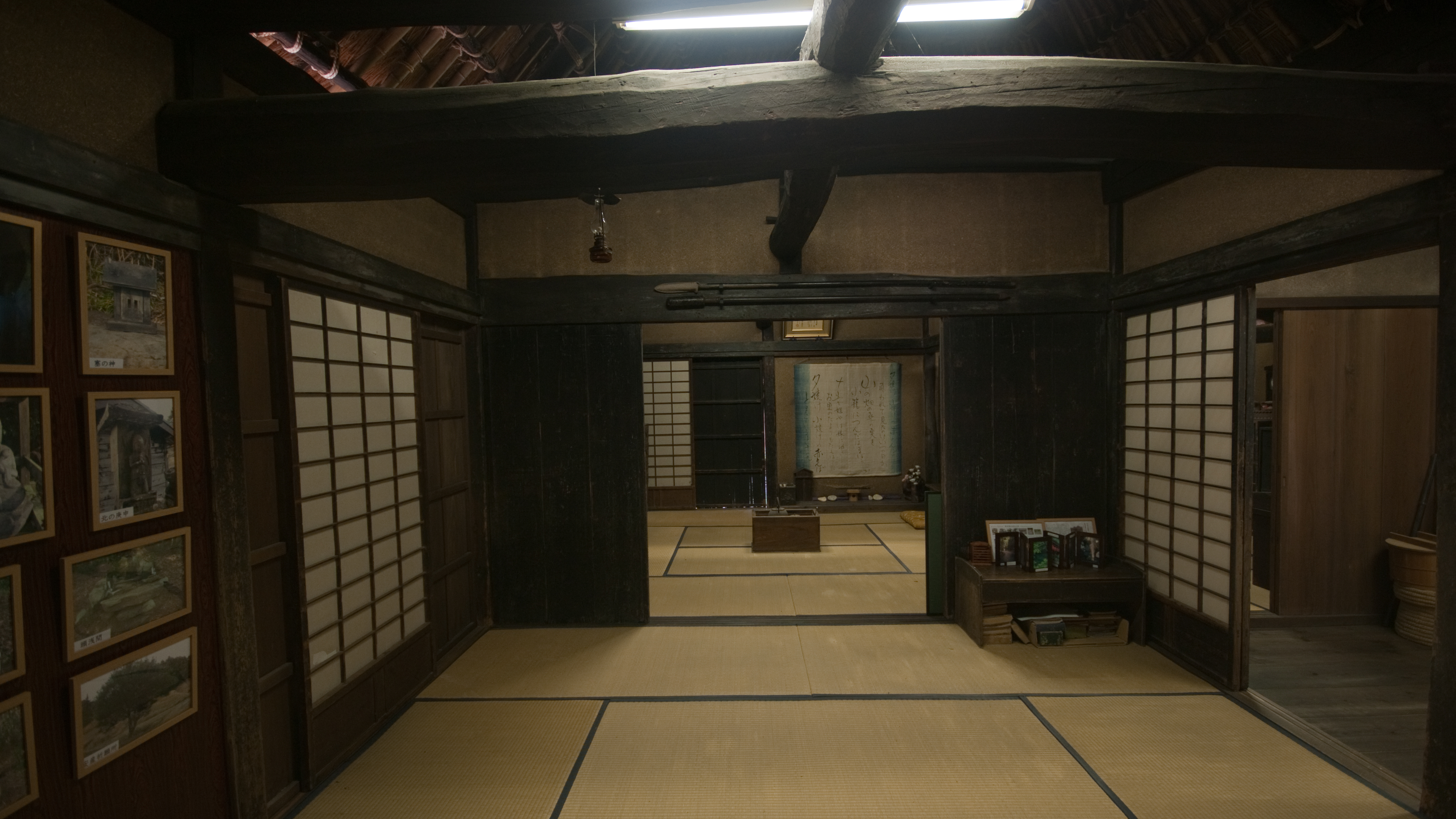 Interior of the Mochiduki residence.